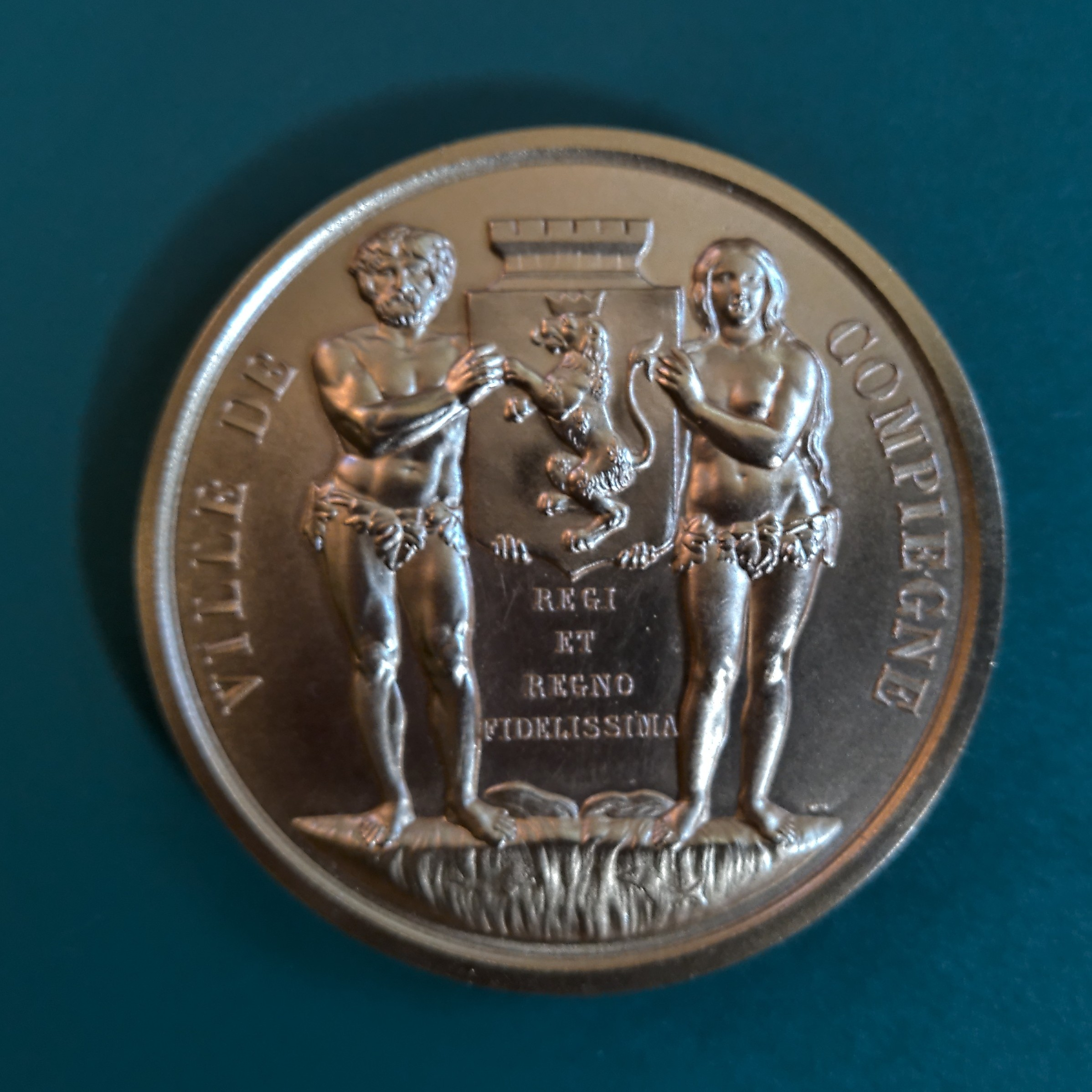 Gold medal of the city of Compiegne (France)